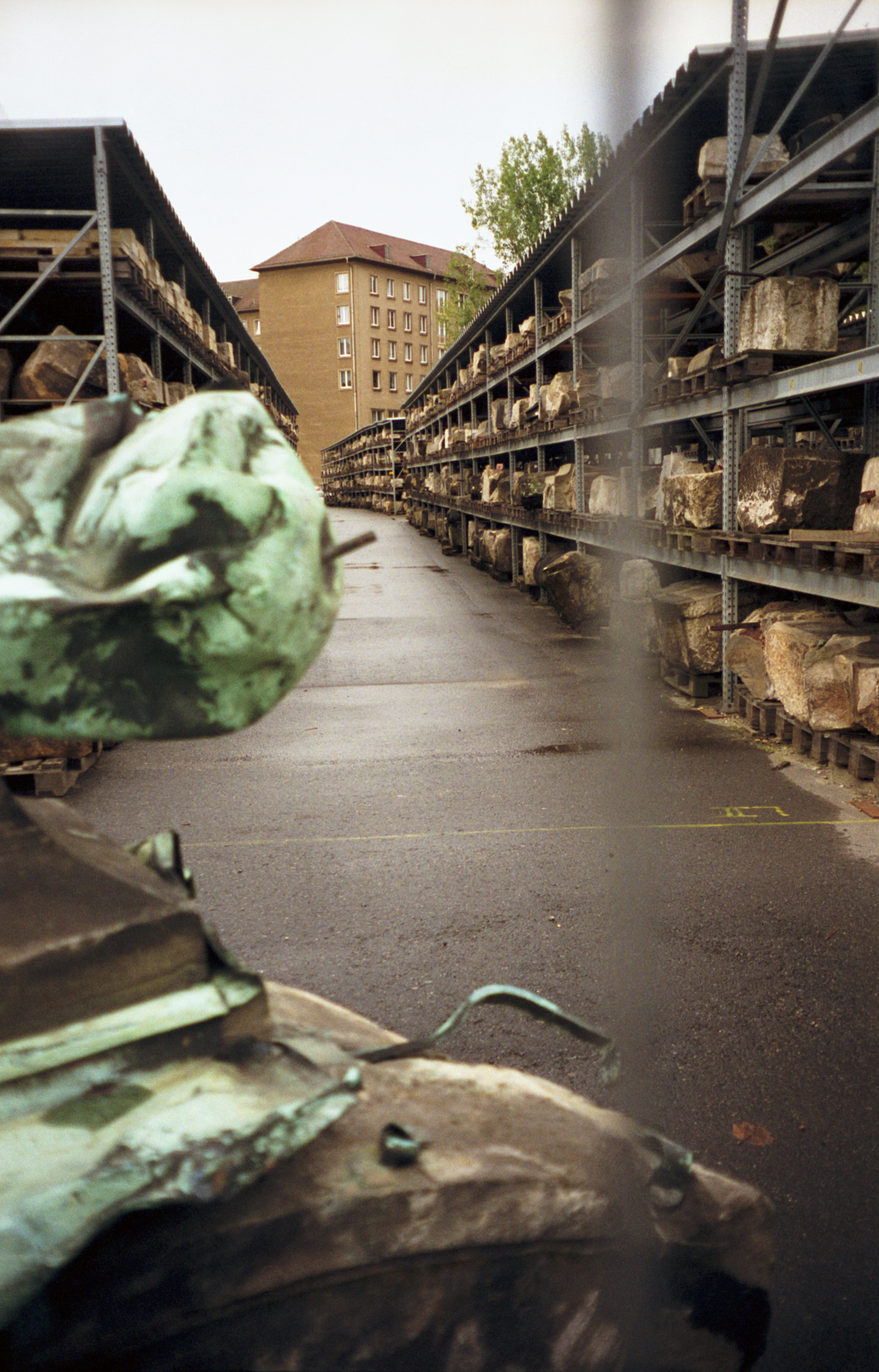 Rows of catalogued stone fragments from the ruins of the Frauenkirche, Dresden, Germany.